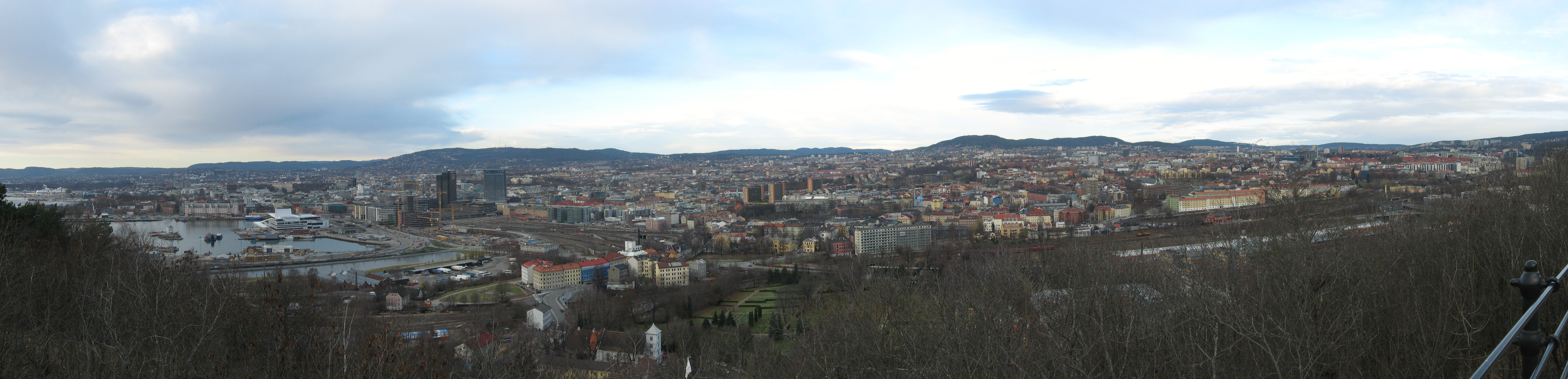 Panorama view of central Oslo from Valhallveien, near Ekeberglettet, Norway. Stitched together with Hugin Version 0.7.0 (SVN 3465).